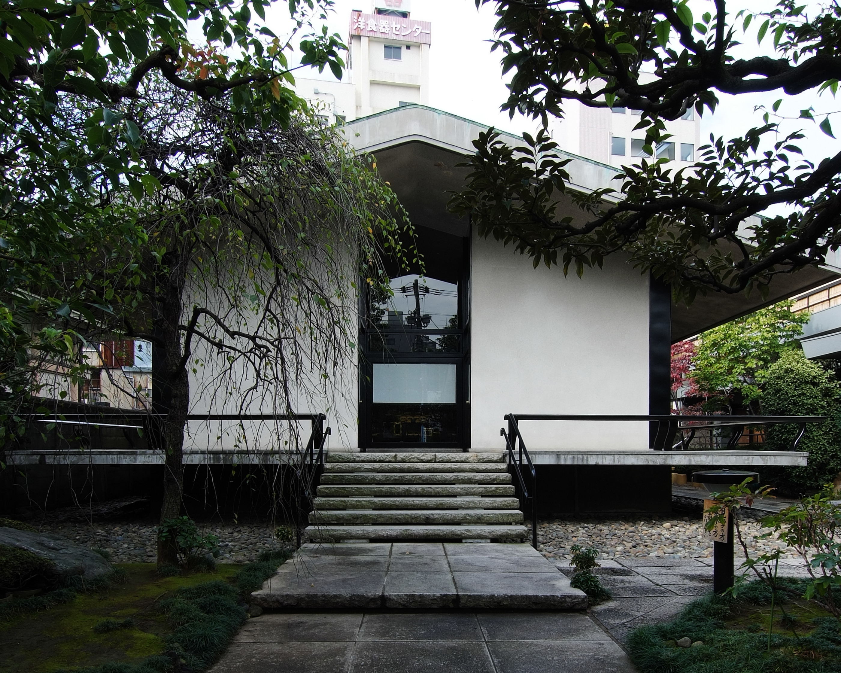 Zenshō-ji hondō, at Asakusa Tokyo Japan, design by Seiichi Sirai in 1958.